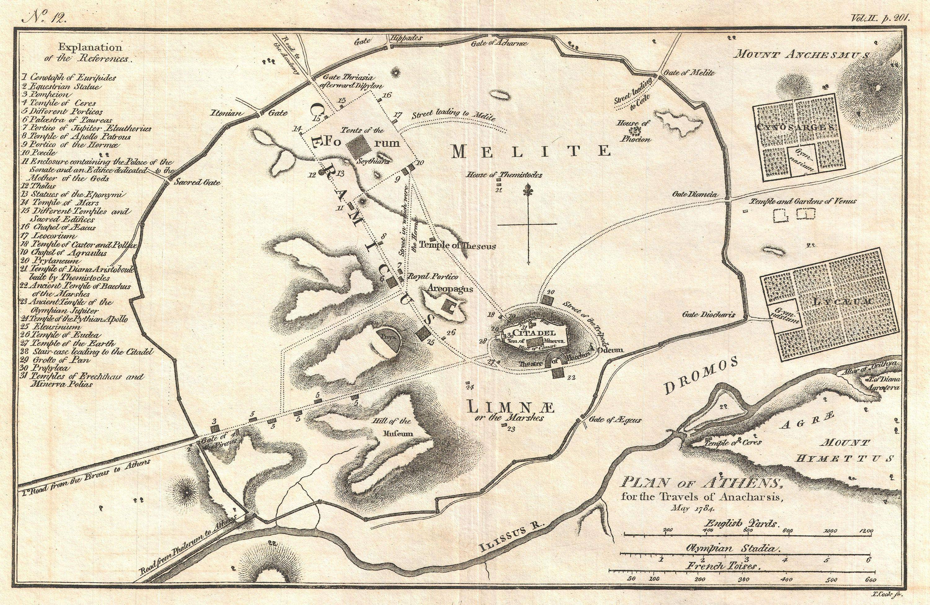 This is an attractive 1784 map of ancient Athens, Greece. Covering the walled center of ancient Athens, this map details the ancient city’s most important buildings and monuments. Names the Lyceum (Aristotle’s famous school of philosophy) and the Cynosarges (Public gymnasium) as well as the Forum, the Citadel, the Temple of Theseus, and the Areopagus. Prepared by Barbie de Bocage for publication in the atlas volume attached to Jean Jacques Barthelemy’s 1788 Travels of Anacharsis the Younger in Greece .